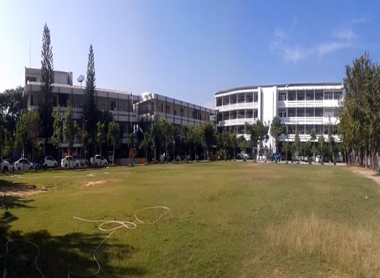 โรงเรียนเทศบาล 2 หนองบัว